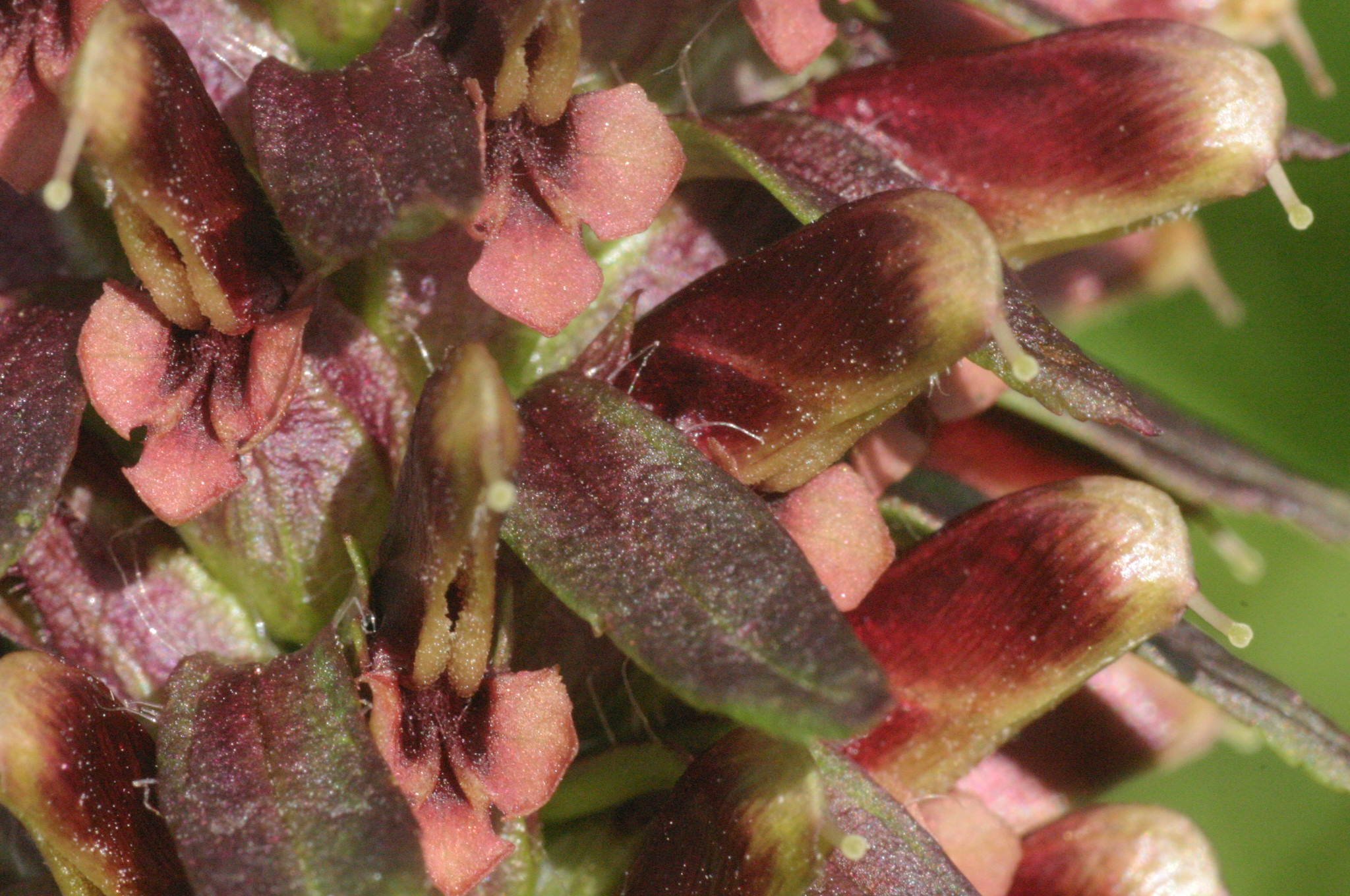 Pedicularis recutita